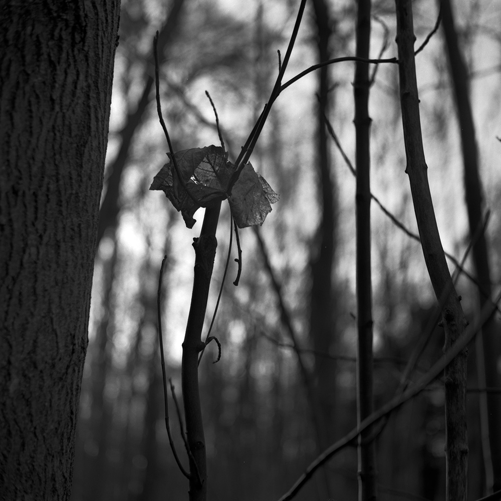 An example of an image processed optimally with stand development.